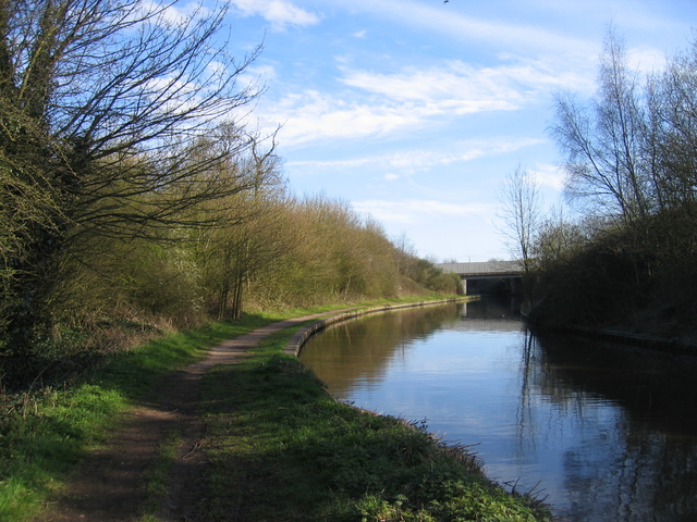 Canal diversion under the M42. The concrete banking show where the Worcester and Birmingham Canal was diverted into a new channel to the west so that the M42 could cross over the top. The M42 is on a long hill at this point and the canal was moved to give the motorway a uniform gradient.